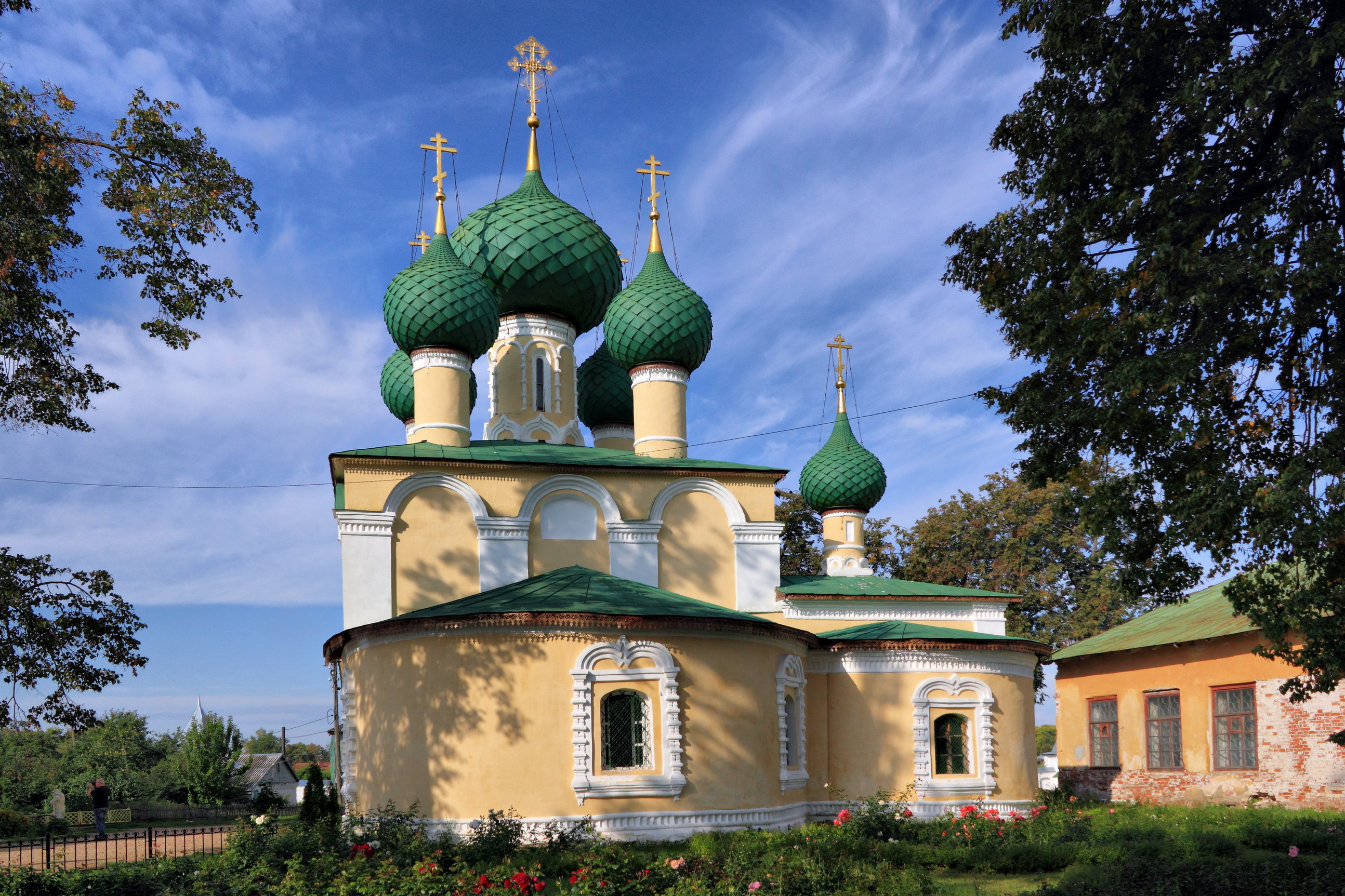 Uglich. Alekseyevsky Monastery. Saint John the Baptist Cathedral